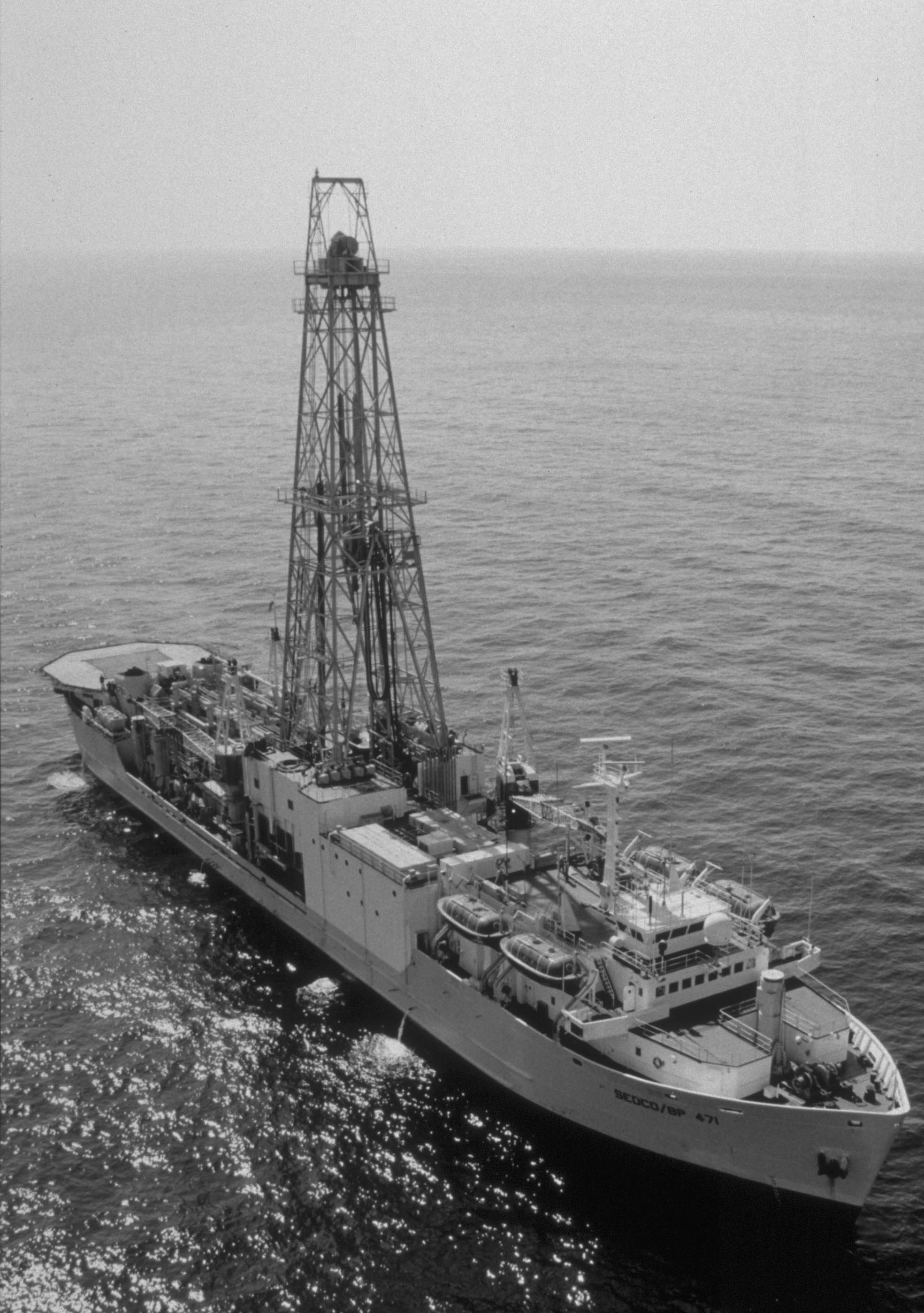 Drillship Joides Resolution used by the Ocean Drilling Programm (ODP)